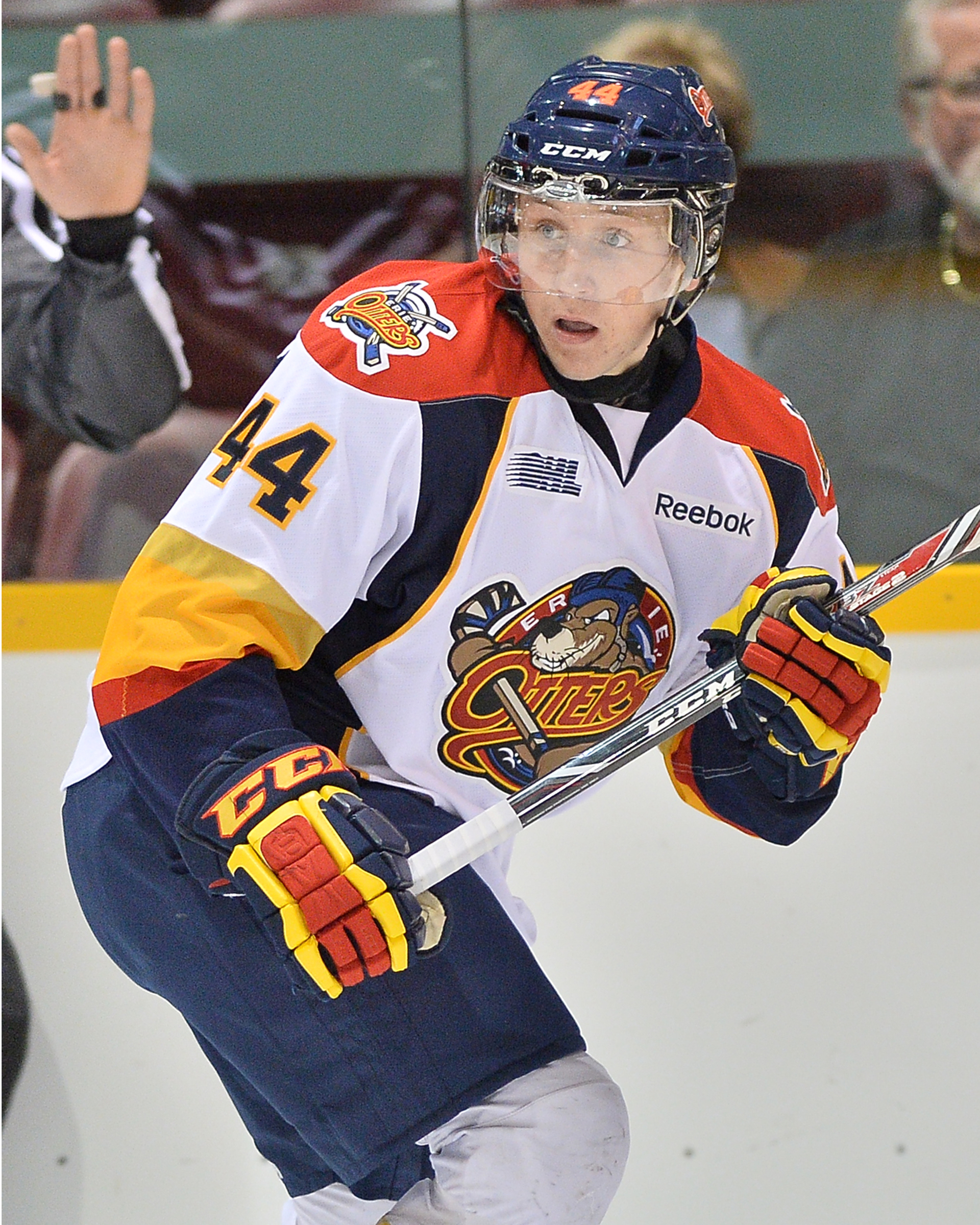 Travis Dermott Erie Otter Defenseman #44 game play photo. 2013 Rookie.